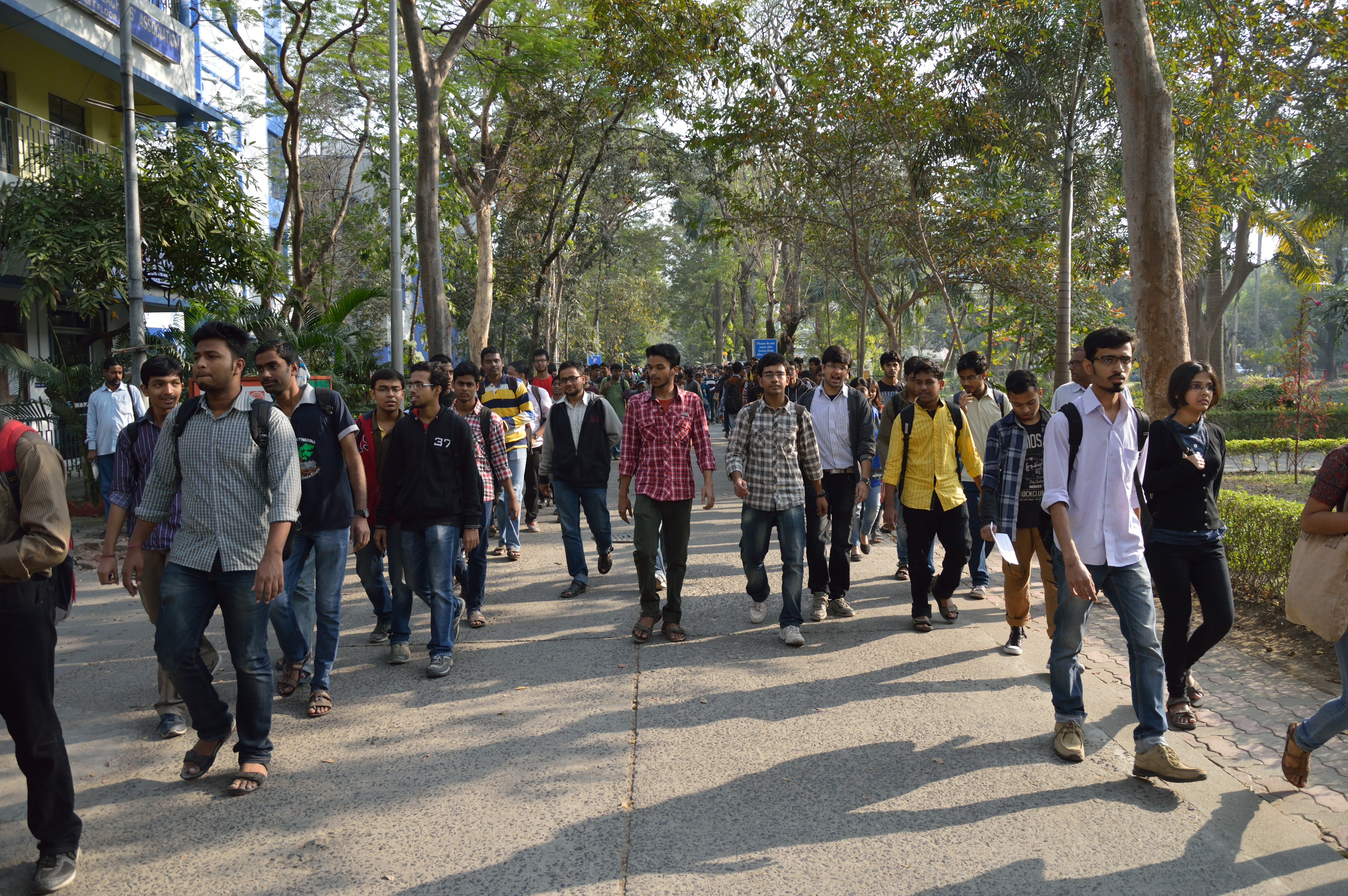 Students protesting by rally against the Vice Chancellor Prof. Abhijit Chakrabarti, at the Jadavpur University campus, Kolkata.